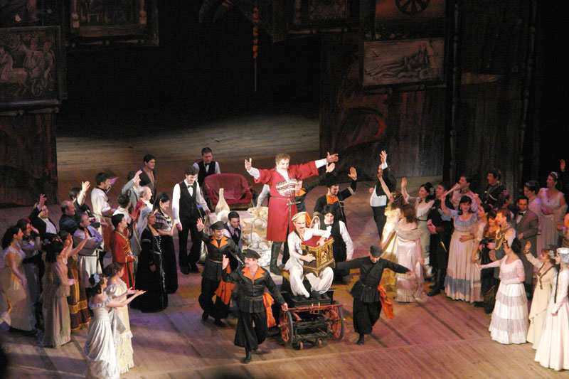 Victor Dolidze play Keto and Kote, Georgia